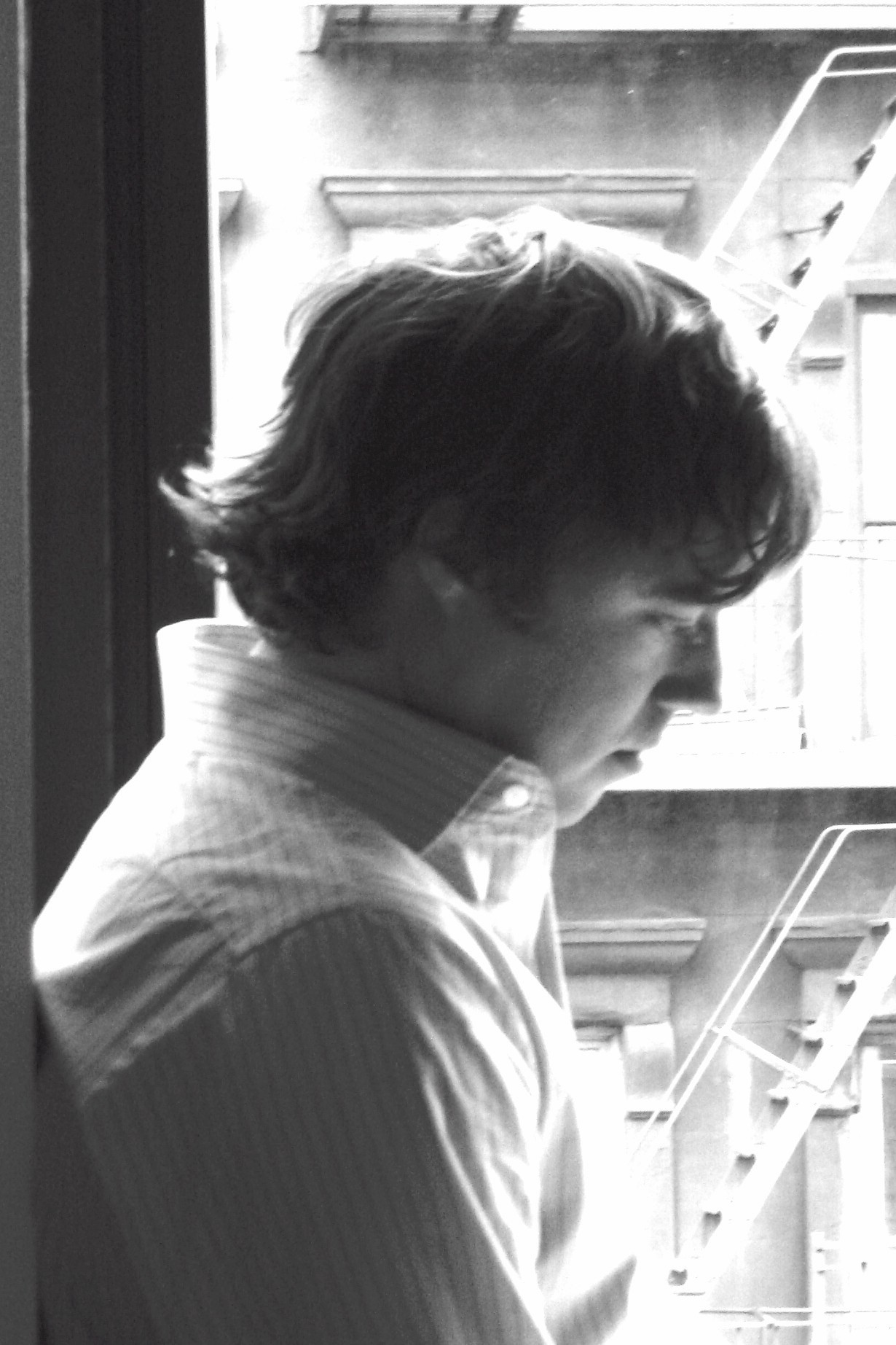 David Goodwillie author photo